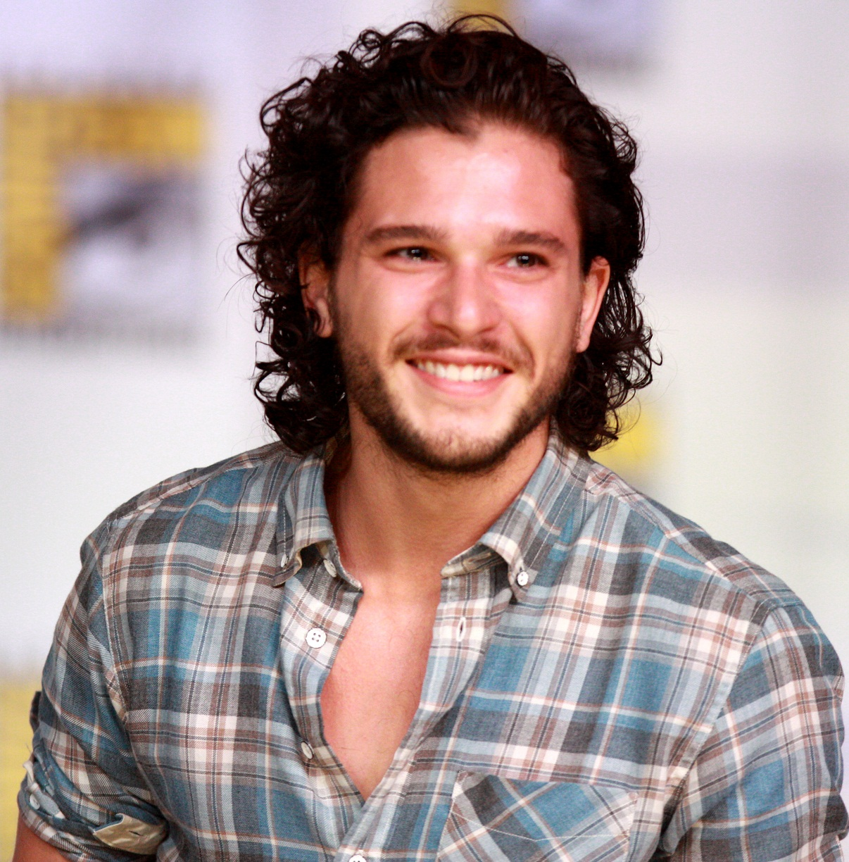 Kit Harington speaking at the 2013 San Diego Comic Con International, for Entertainment Weekly's "Brave New Warriors" panel, at the San Diego Convention Center in San Diego, California.